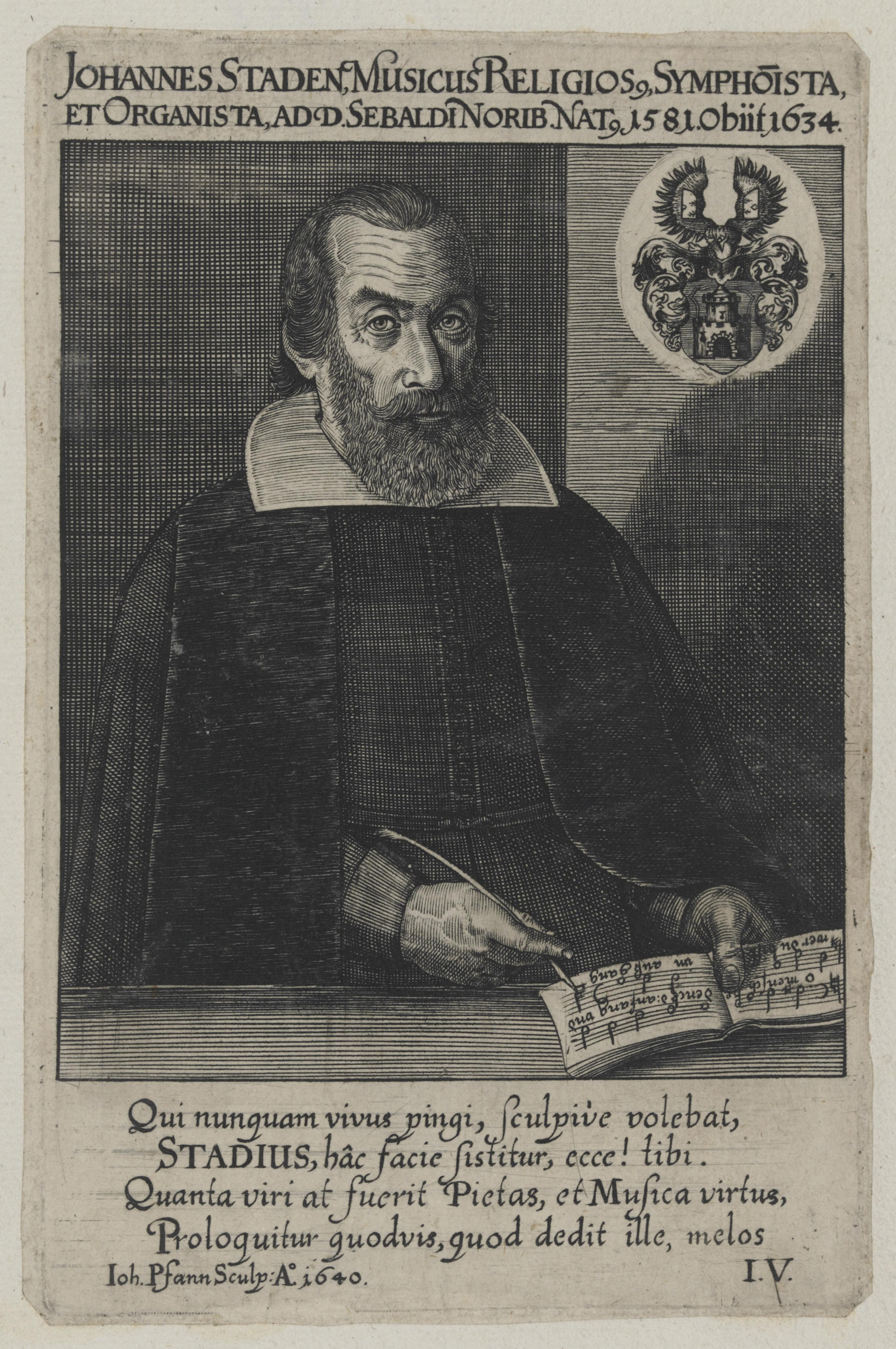 Portrait of Johann Staden. 17th/18th century